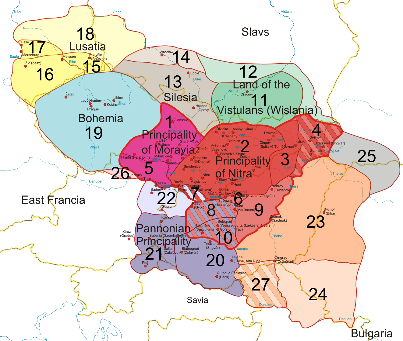 Historical map of Great Moravia